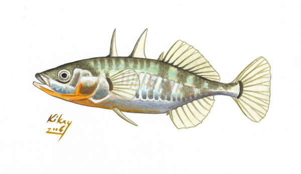 Three-spined stickleback